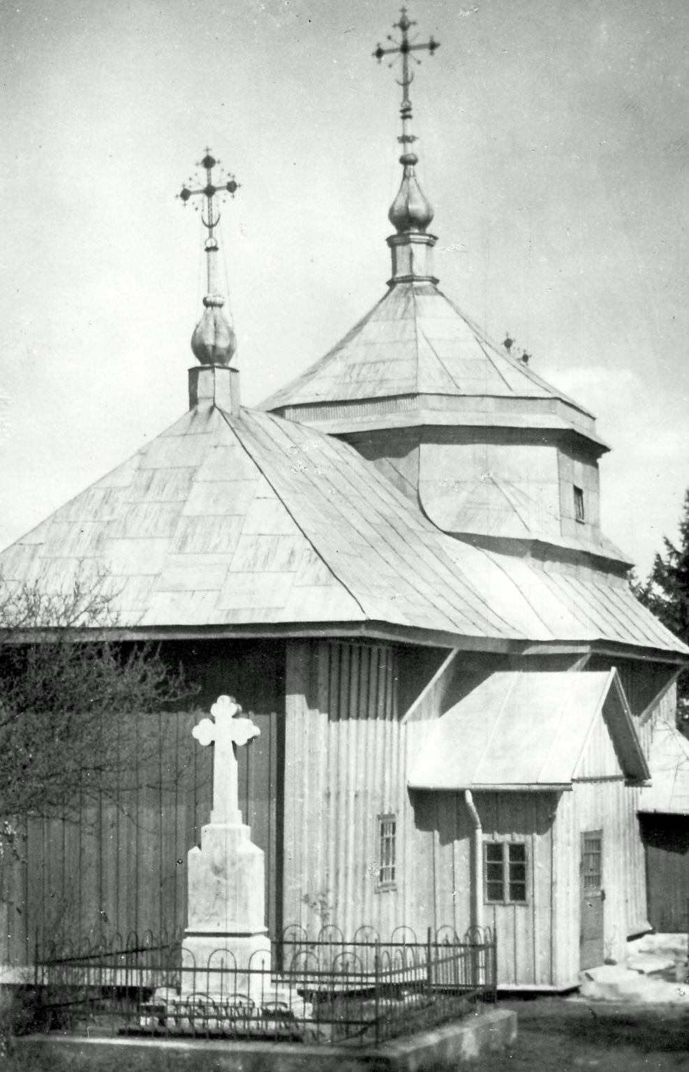 Church in Comărești, Storojineț (Cernăuți region, Ukraine)